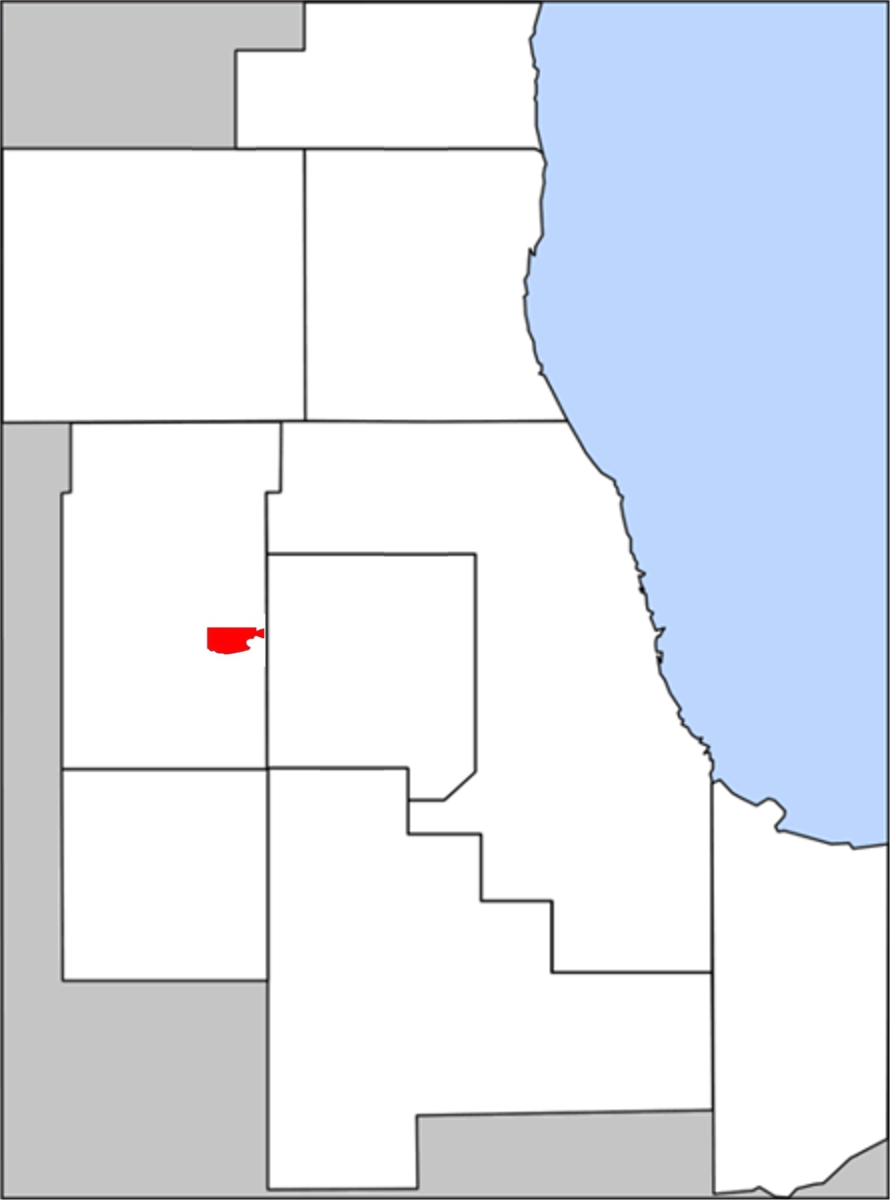 Location map for Geneva, Illinois.